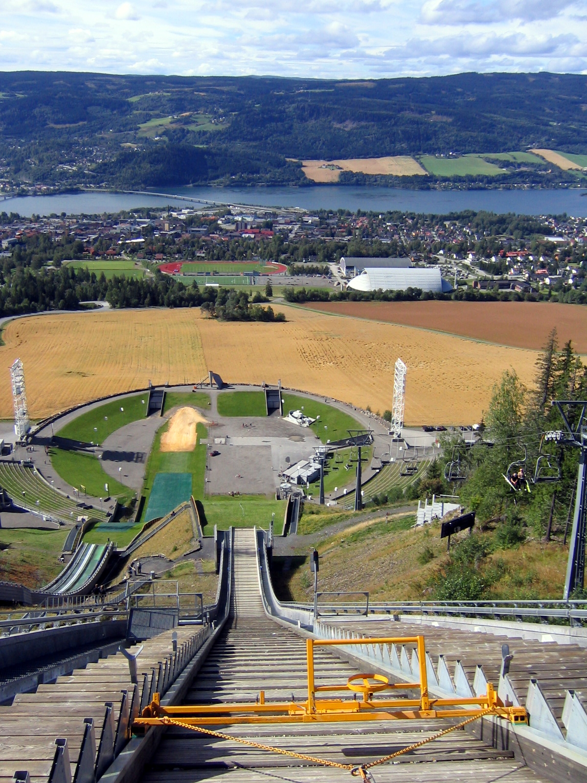 Lysgårdsbakken at Lillehammer